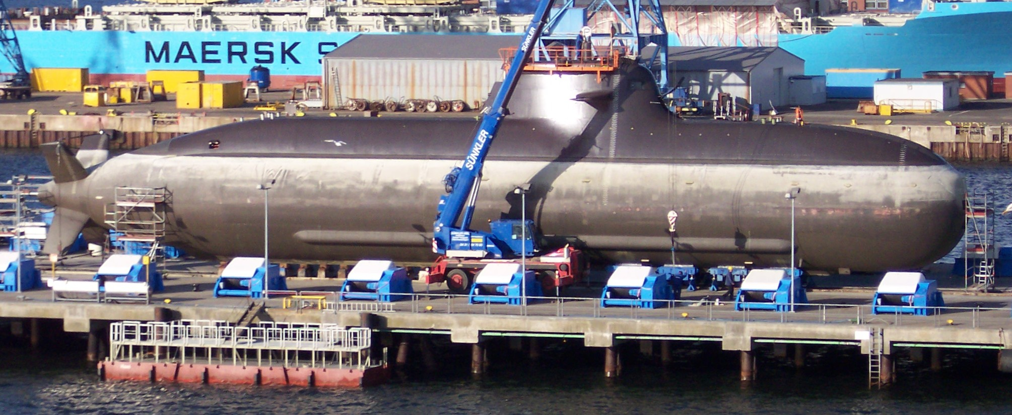 Submarine Typ 212 in Docks at HDW/Kiel (Germany). Picture taken by my own. This picture may have usage restrictions.